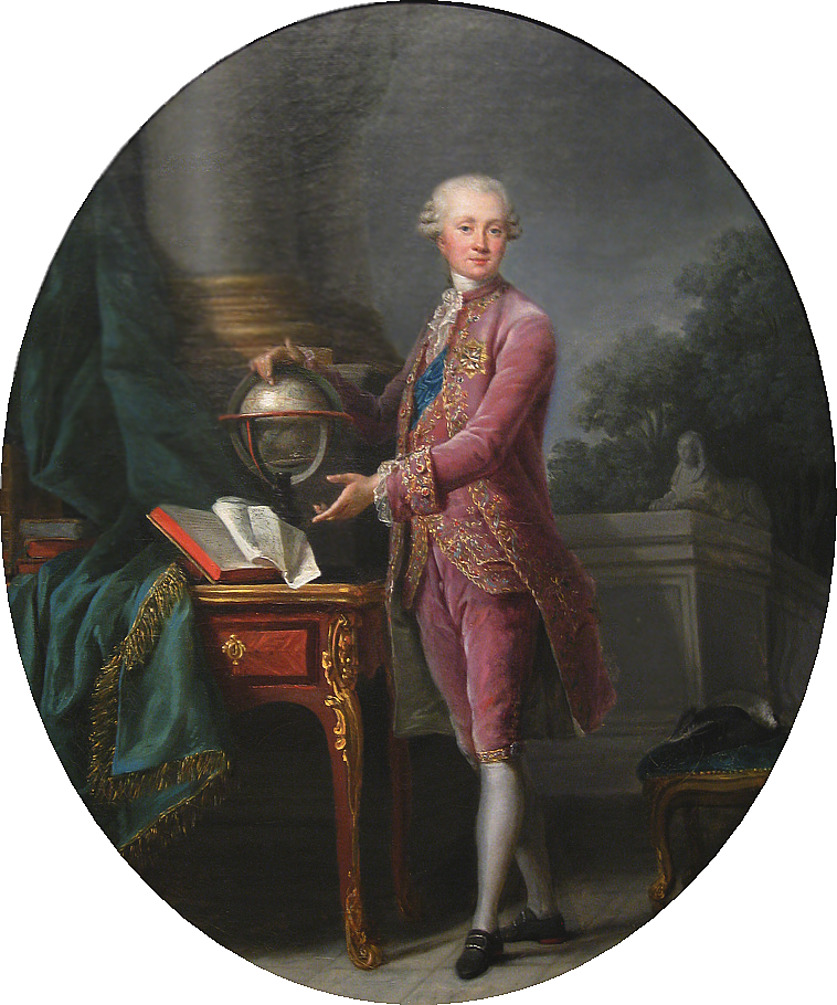 Karl von Nassau-Siegen